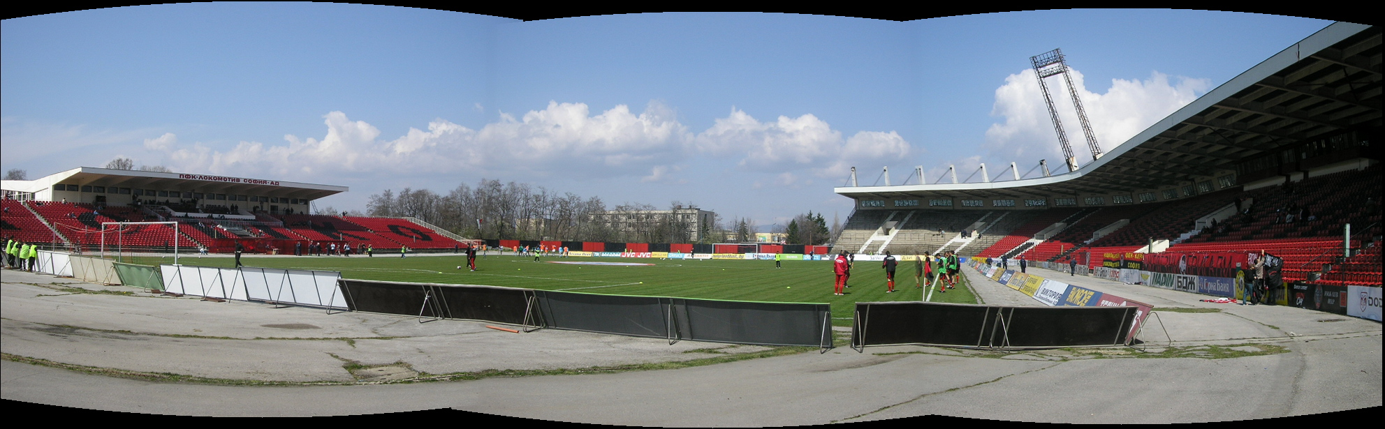 Stadion Lokomotiv, Sofia.